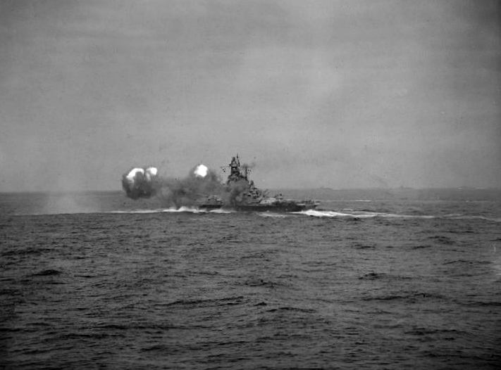 The U.S. Navy battleship USS Alabama (BB-60) firing her 40.6 cm guns during combined British and American fleet exercises. The photograph was taken from the Royal Navy battleship HMS Anson (79).Alabama and USS South Dakota (BB-57) operated with the British Home Fleet in 1943. In June 1943, the ships, together with HMS Duke of York (17) and HMS Anson took part in "Operation Gearbox" (to Spitsbergen).